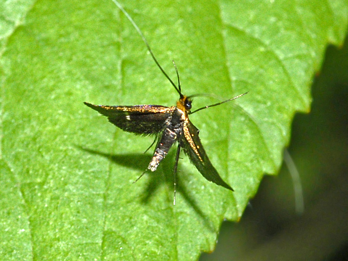 Adela australis in flight. Piani di Praglia, Genova, Italy